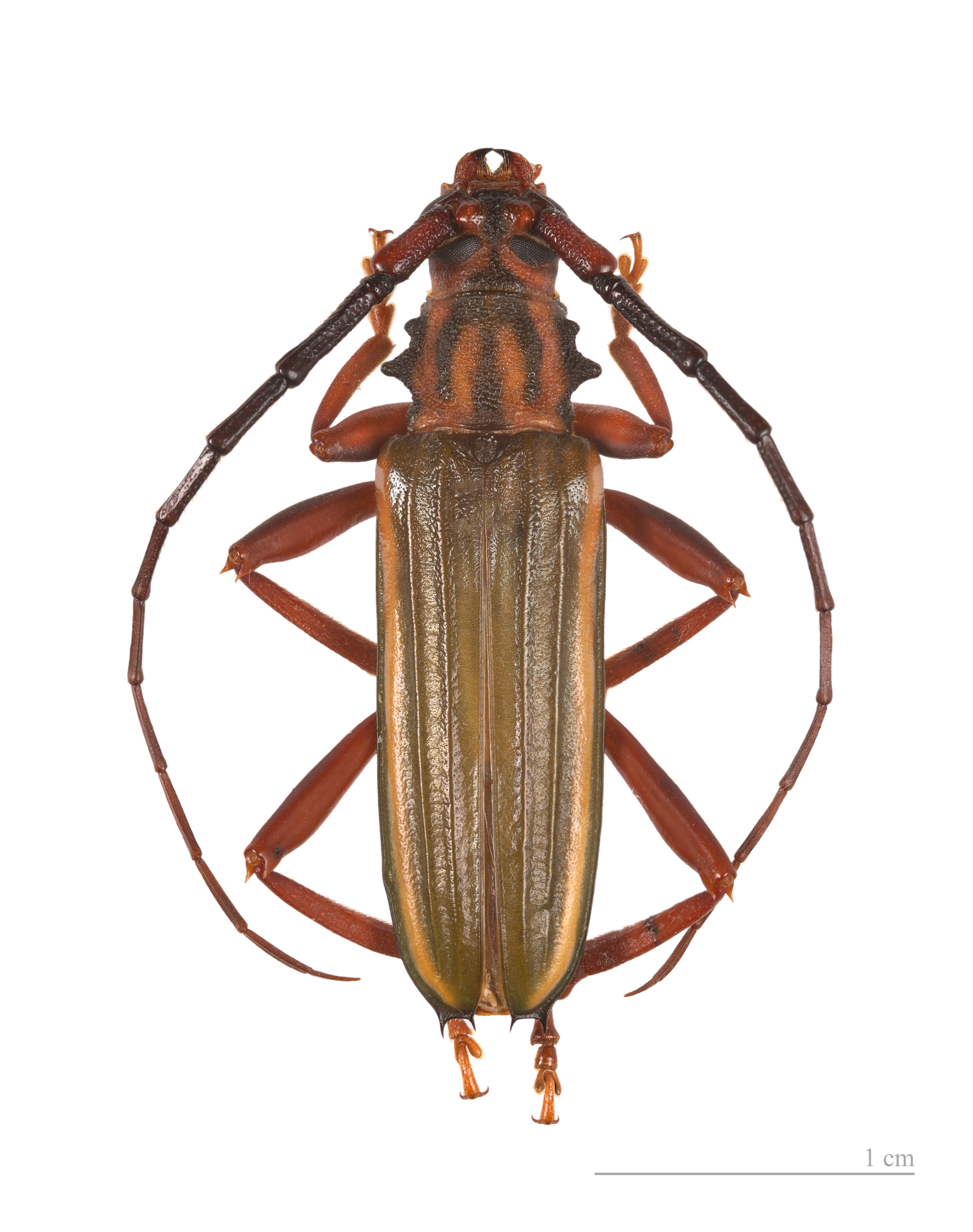 ♂ - Dorsal side Locality : Kaw road, Carbet of National Forests Office, French Guiana.